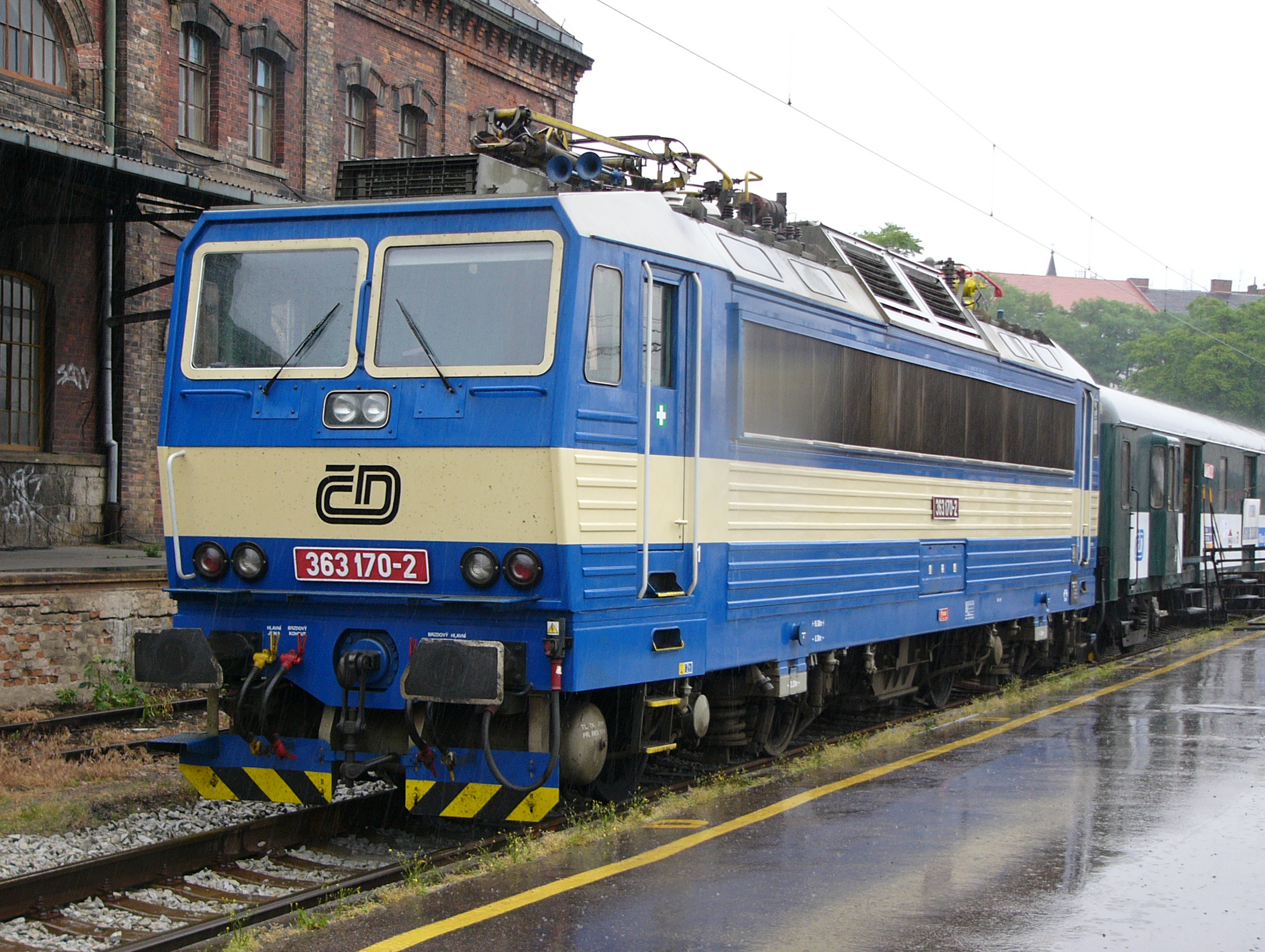 Czech electric locomotive number 363170-2.